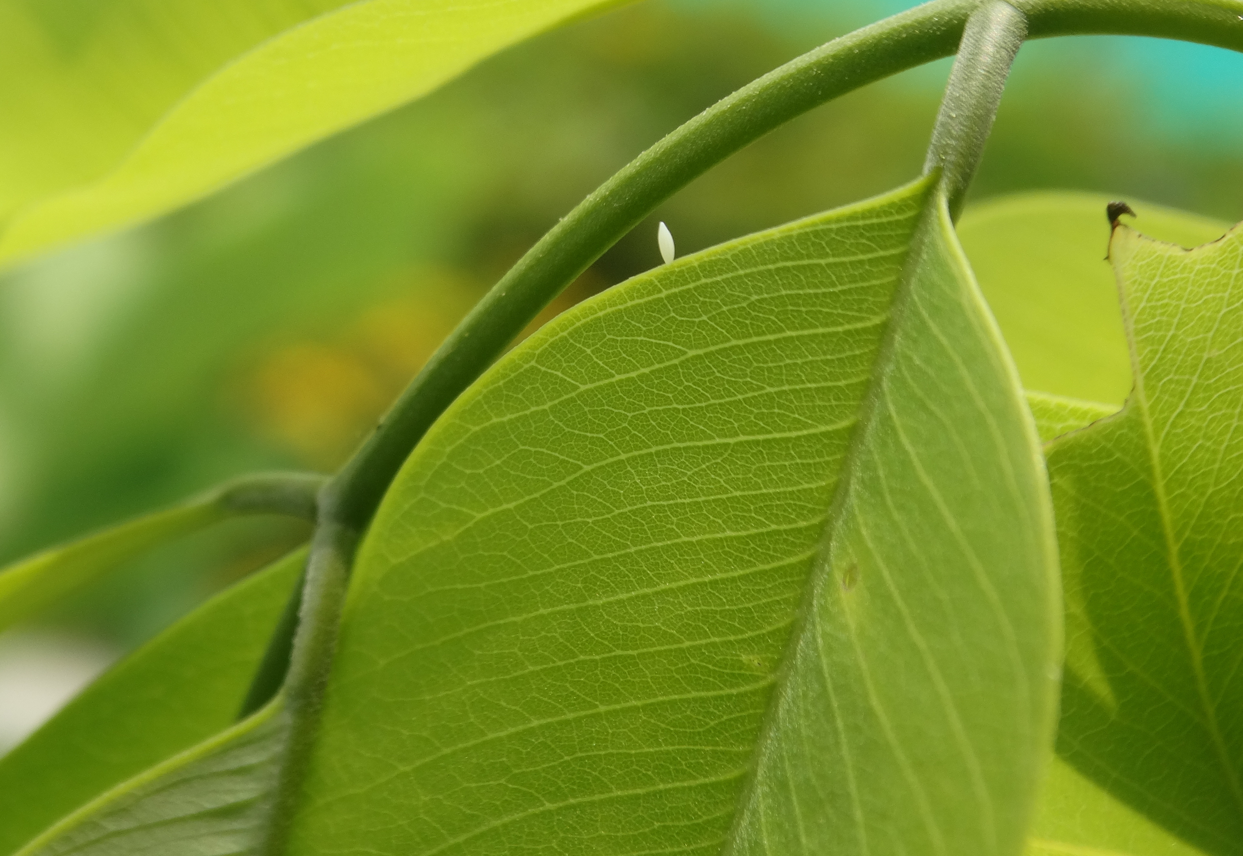 This picture was taken in Eco Park Butterfly Garden.A single egg of Catopsilia pomona(Common Emigrant) found in the upper edge of Cassia fistula leaf.